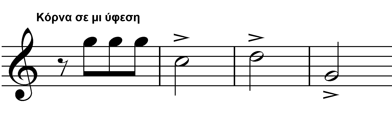 Beethoven, Symphony No. 5